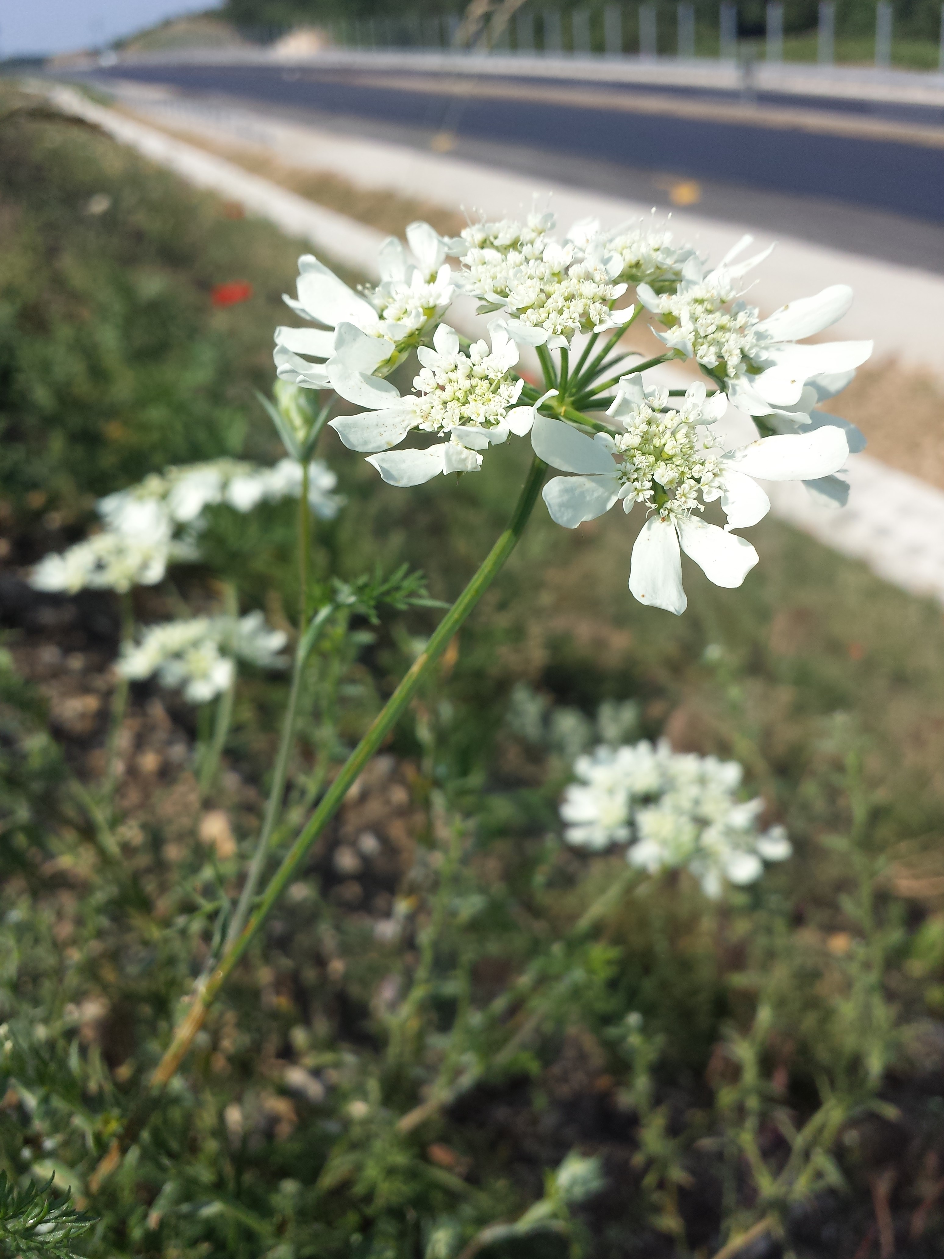 Inflorescence Taxonym: Orlaya grandiflora ss Fischer et al. EfÖLS 2008 ISBN 978-3-85474-187-9; det. Gergely Király 2015-06-07 Location: Veszprém County, Hungary - ca. 200 m a.s.l. Habitat: slope